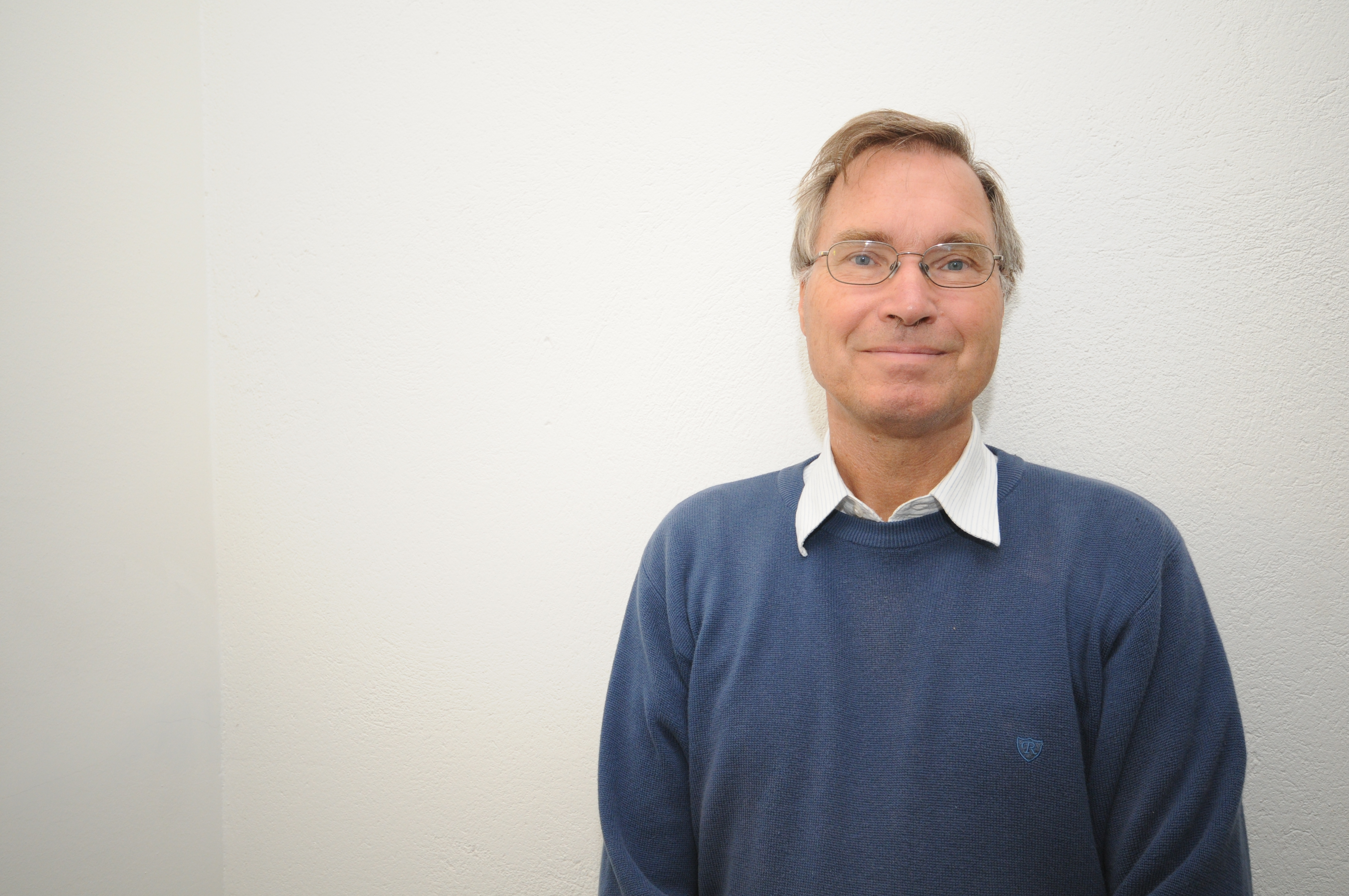 Professor Øyvind Geelmuyden Grøn Picture taken by Oslo University College Photographer